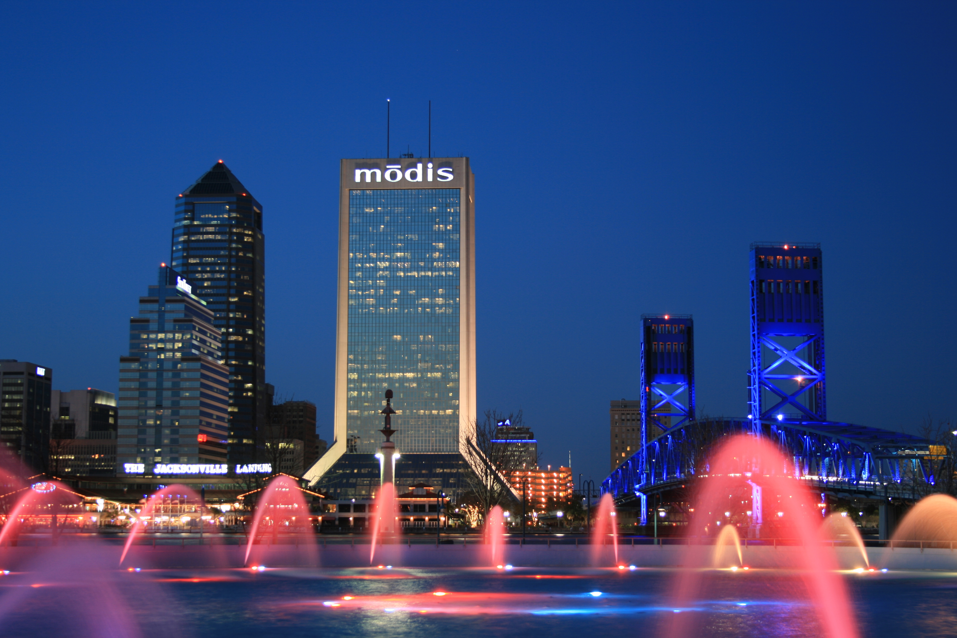 Photo of the Friendship Fountain at night in Jacksonville, Florida, USA.